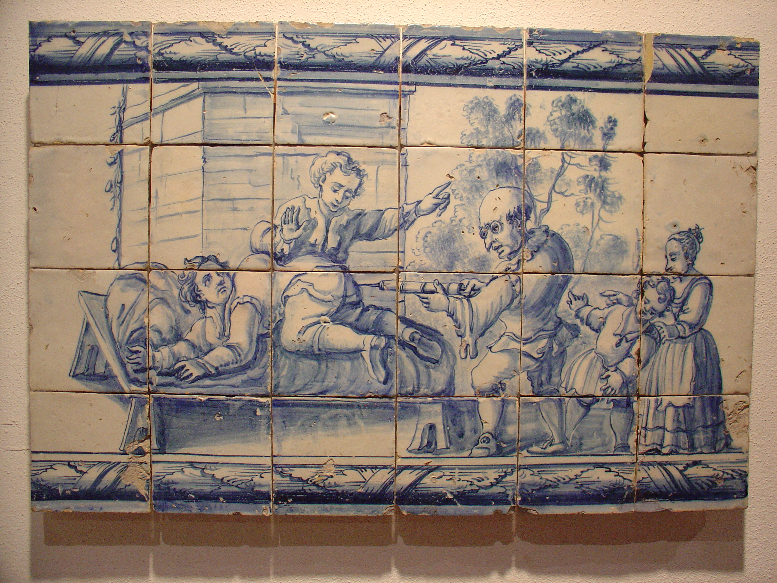 Enema. Museo Nacional do Azulejo, Lisboa (Portugal)